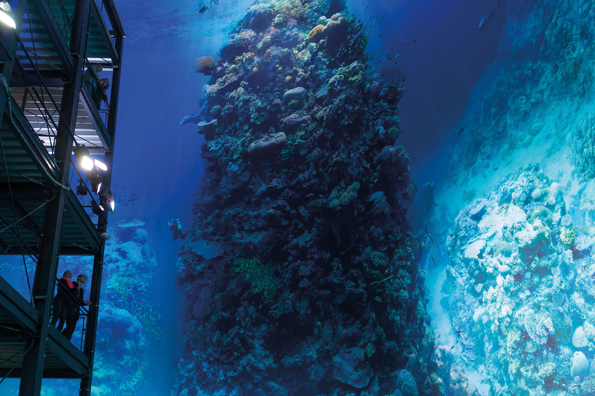 Visitors are watching the ”Big Eye Bommie“ in the Panorama GREAT BARRIER REEF (c) asisi